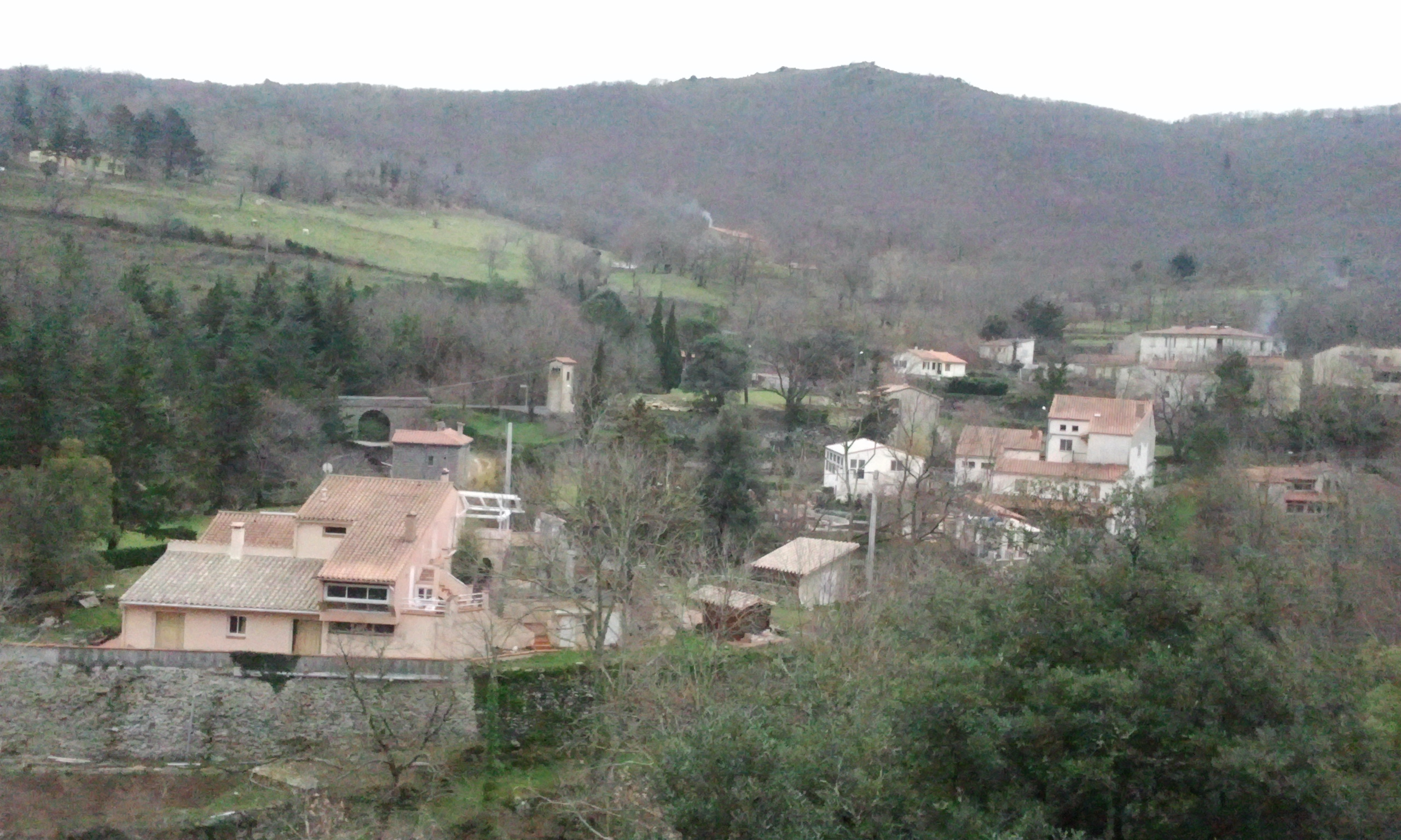 View of Las Illas